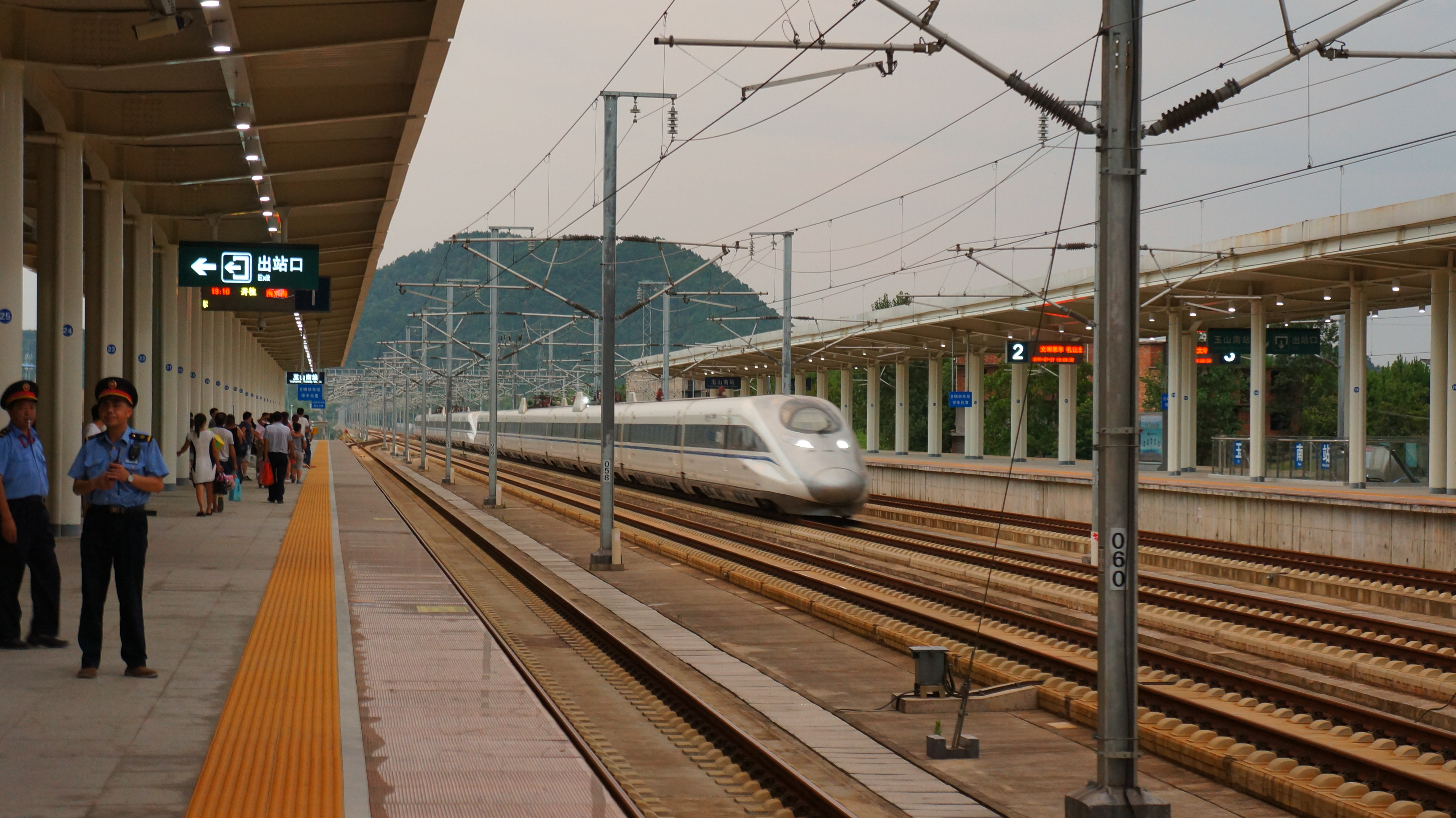 A CRH380A passes Yushannan Railway Station